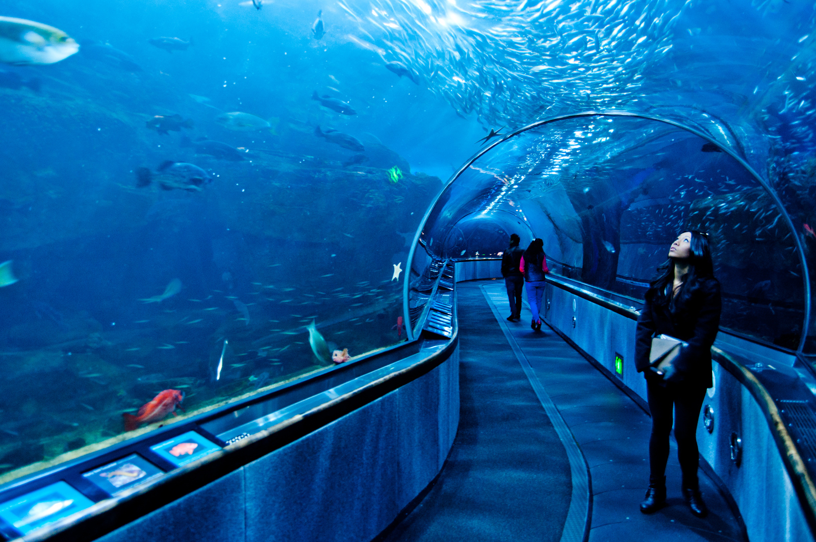 San Francisco's Aquarium of the Bay has this nifty glass tunnel. Pretty awesome. I have no idea who the girl is in this photo; she just happened to be in the shot. Honest!